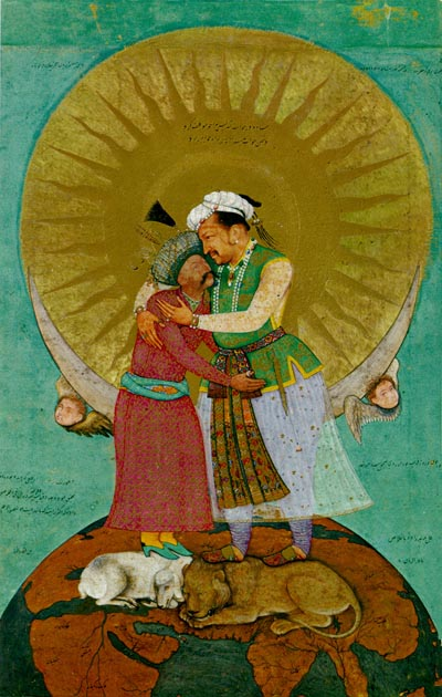 Jahangir, on the right, hugs Shah Abbas, the Safavid ruler of the Persian empire. They stand on top of the world, on the backs of a lion and a lamb. A lion and a lamb together represents peace and harmony. This image suggests that the two rulers are at peace with one another. It also suggests, due to the submissive posture of Shah Abbas, that Jahangir, the Mughal Indian emperor, is in charge here. He is the one that stands on top of the world. Shah 'Abbas is secondary.[1]